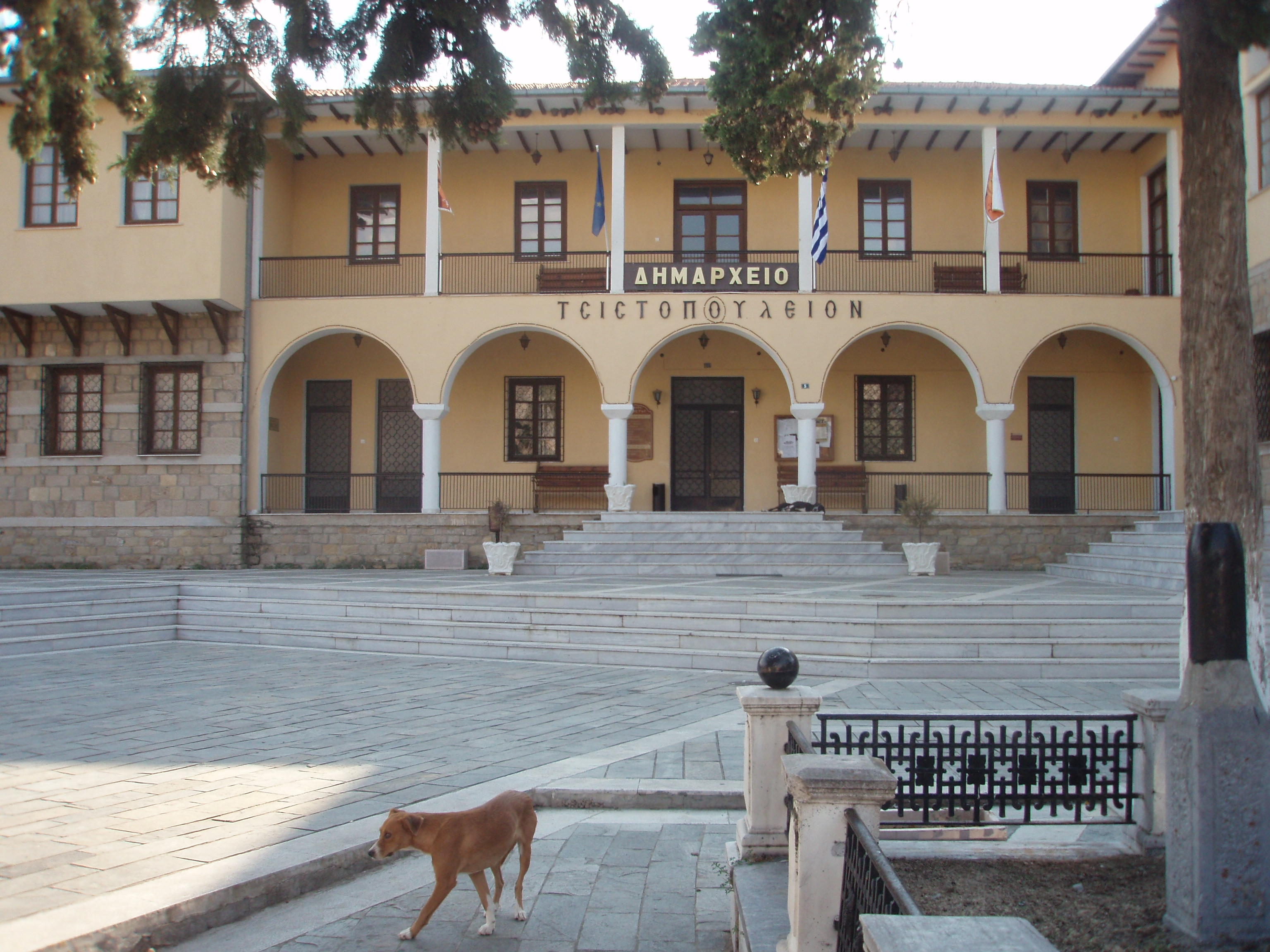 City hall in Siatista, Kozani prefecture, Greece.